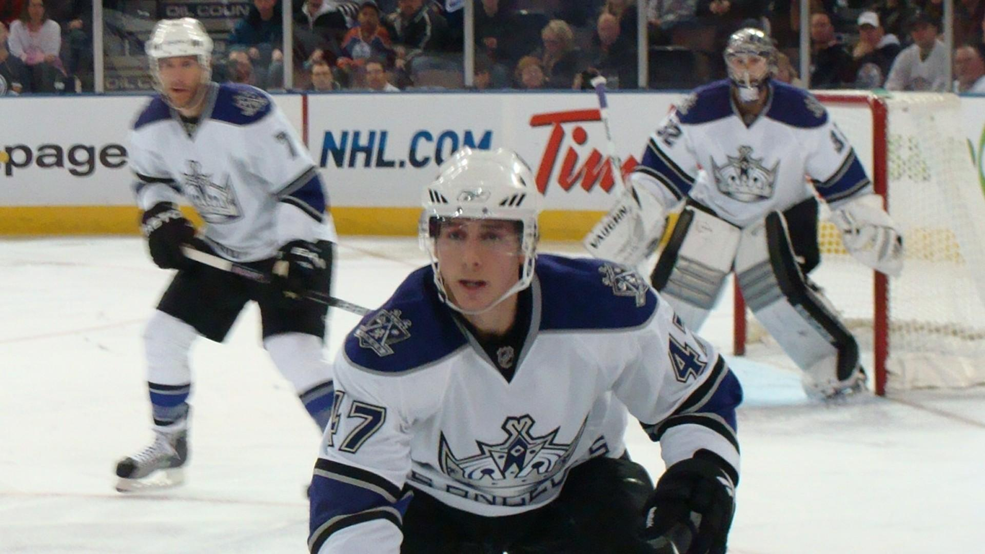 ˥7 - Corey Elkins NHL Hockey Players